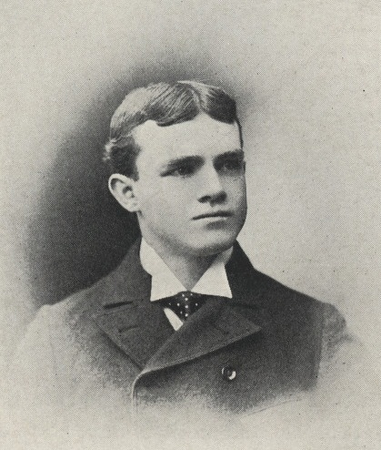 Photograph of Purdue University athlete Alpha Jamison